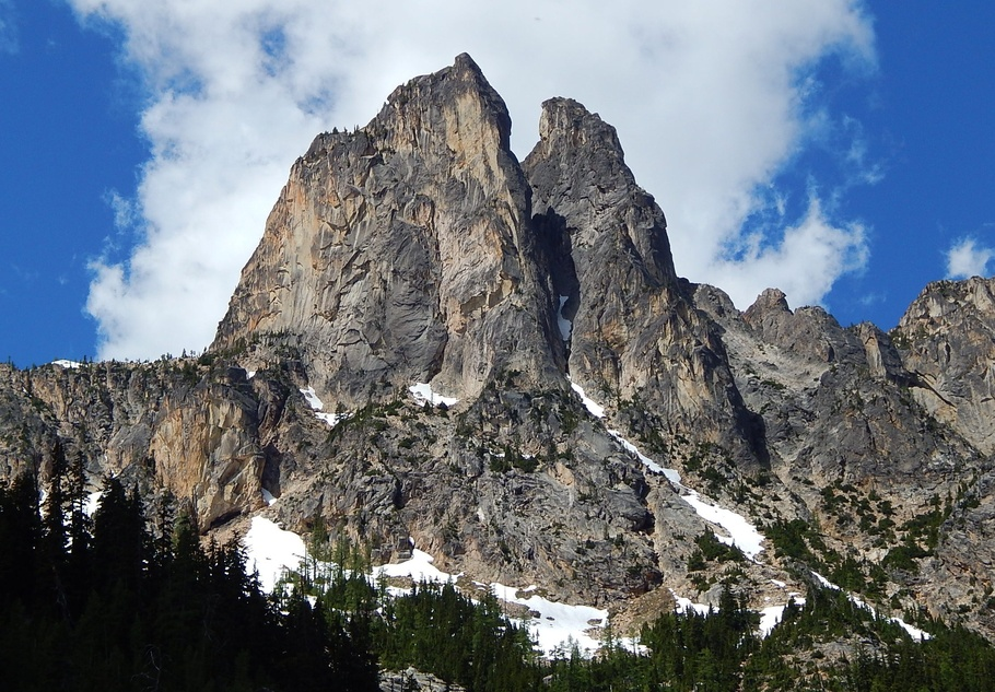 South And North Early Winters Spires in the North Cascades Mountains at Washington Pass. Seen from Early Winters Basin Which is between Washington Pass and Kangaroo Pass.